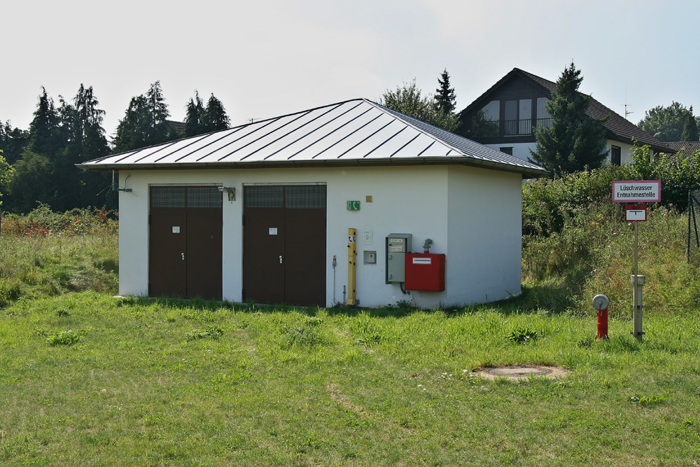 Emergency exit of the Aegidienberg Tunnel